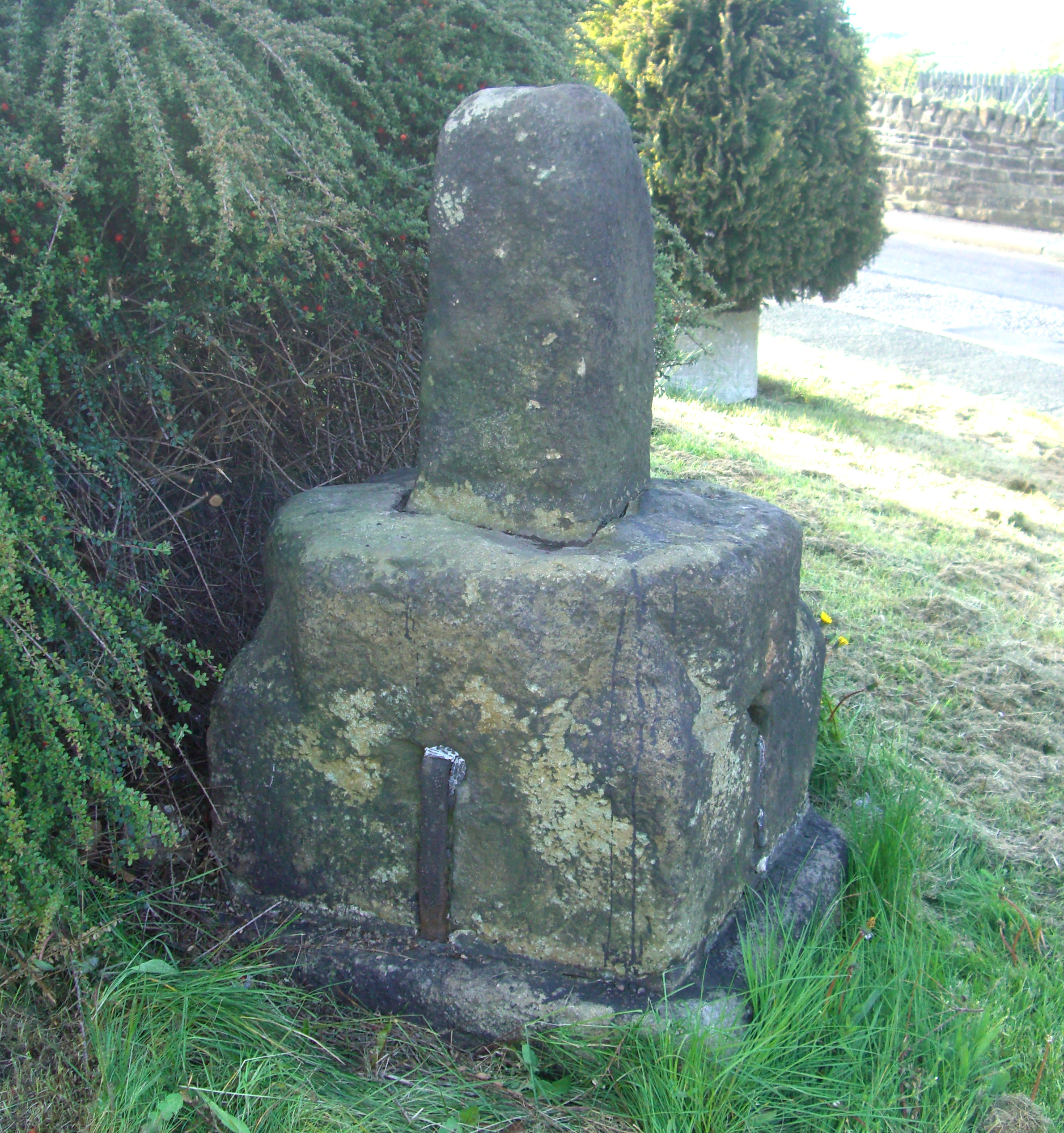 Base and broken shaft of Mediæval preaching cross at the junction of Oldfield Road and Stannington Road, Stannington, South Yorkshire